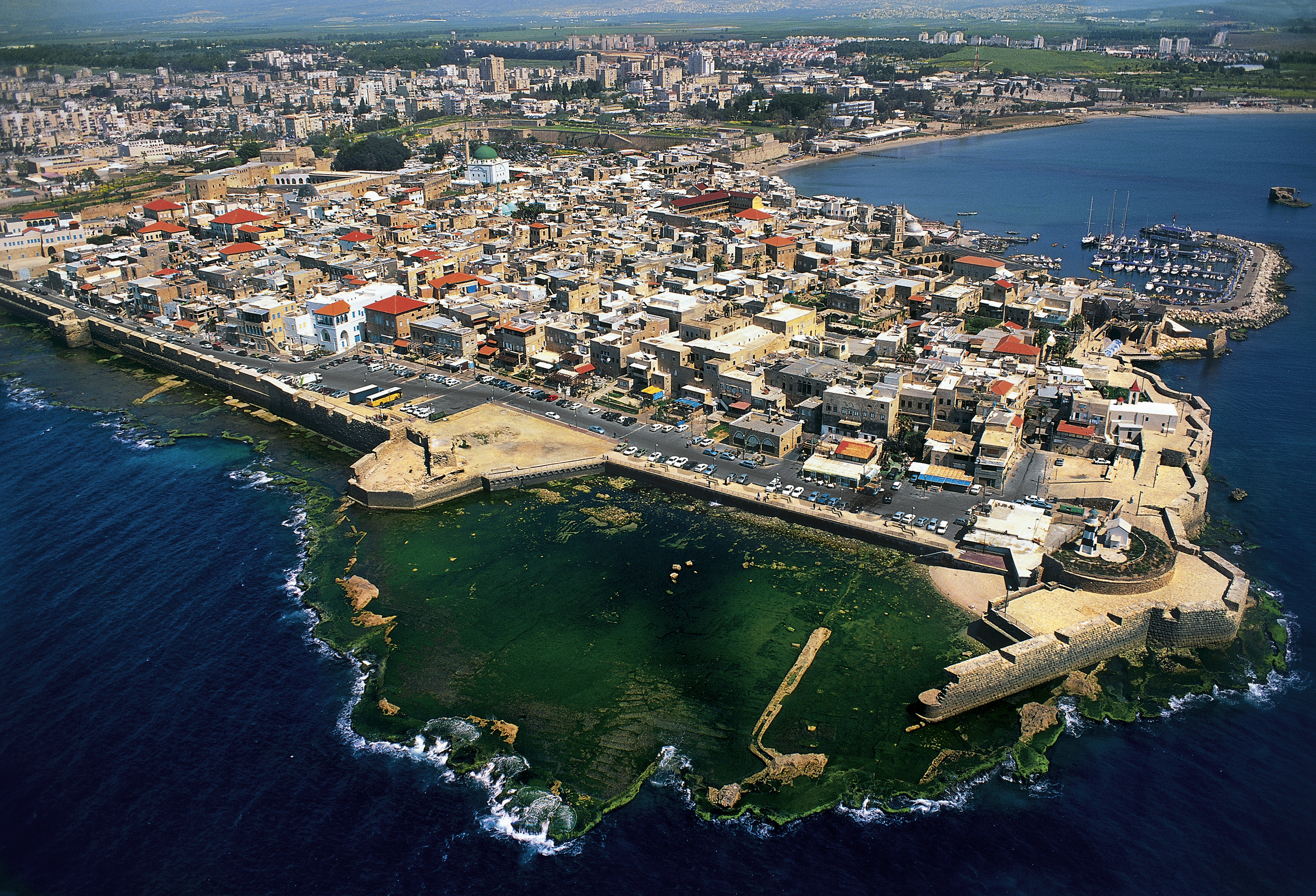 Acre ( Acco) is a city in the Western Galilee region of northern Israel at the northern extremity of Haifa Bay. Acre is one of the oldest continuously inhabited sites in the country.Historically, it was a strategic coastal link to the Levant. Acre is the holiest city of the Bahá'í Faith. The picture shows an aerial view of the Old City, its harbour, the ancient walls and the Al-Jazzir Mosque. Photo by Itamar Grinberg.